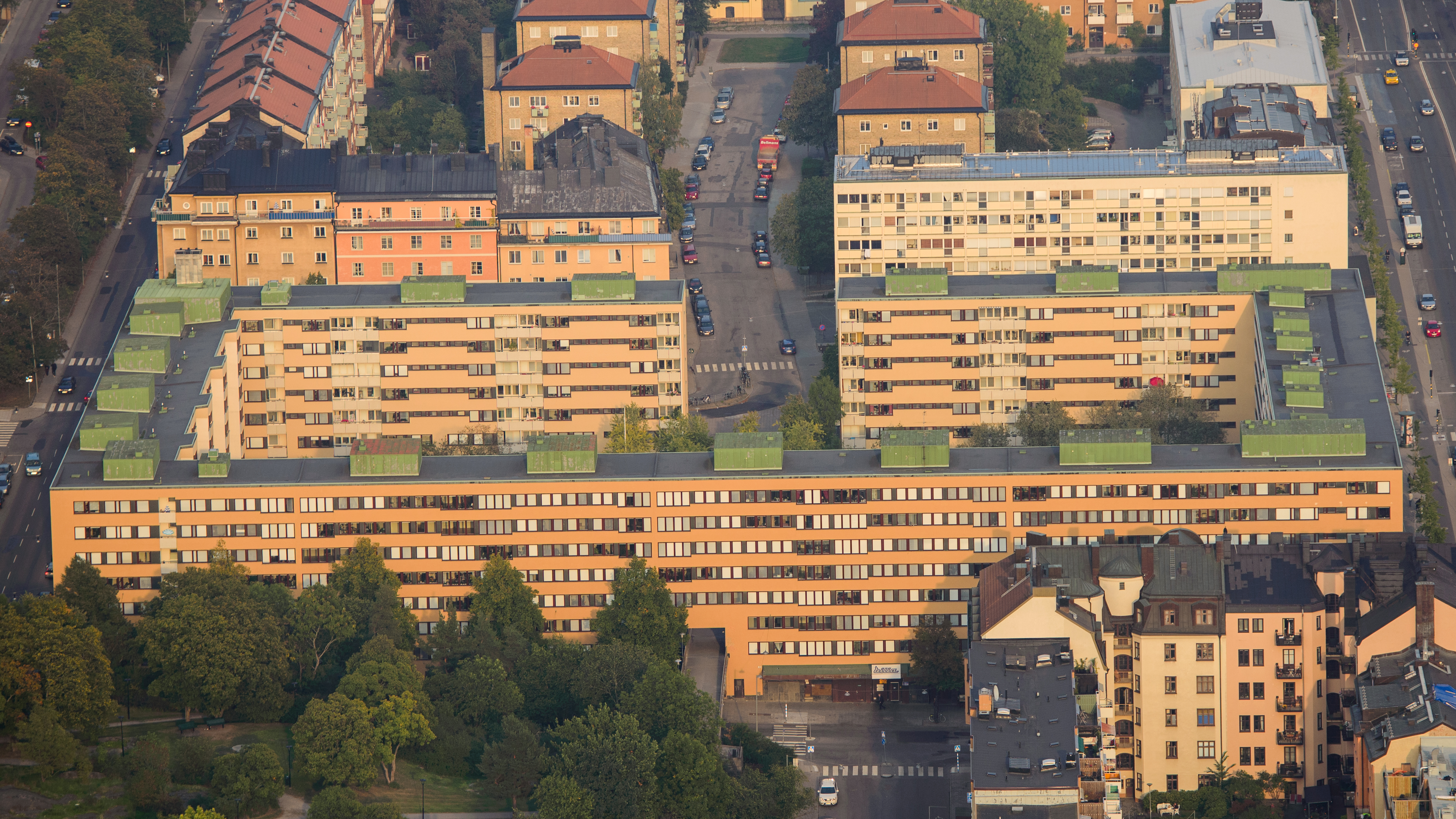 City block Plankan, Södermalm (Stockholm).